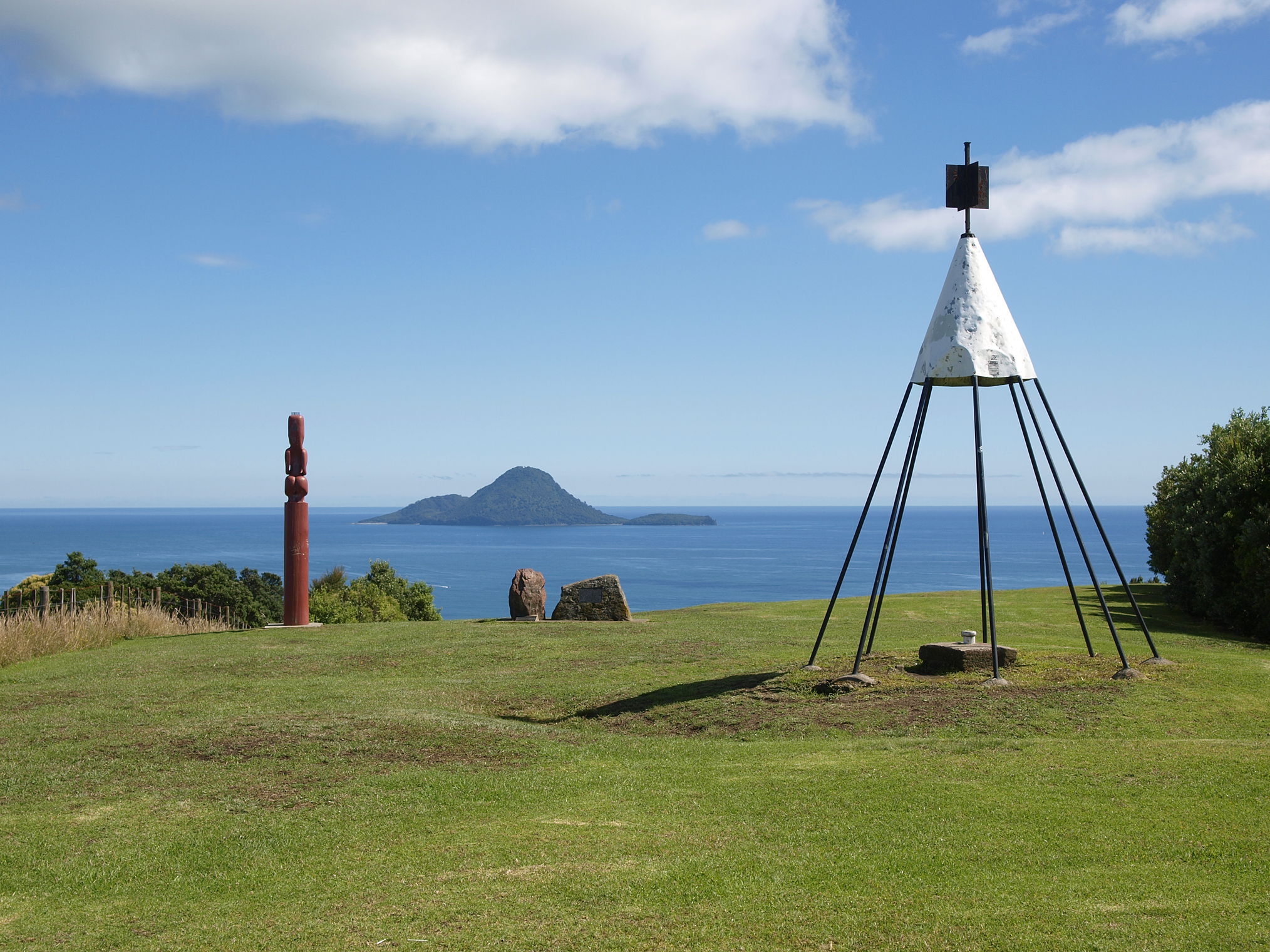 Toi's Pa, Whakatane, Bay of Plenty, New Zealand. The photo shows the plateau where the Maori village was located. On top of Kohi Point with a view to the Pacific Ocean and Whale Island.